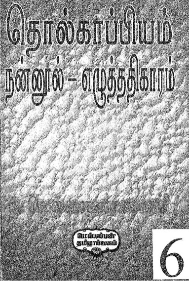 Cover page Tholkapiyam & Nannul book